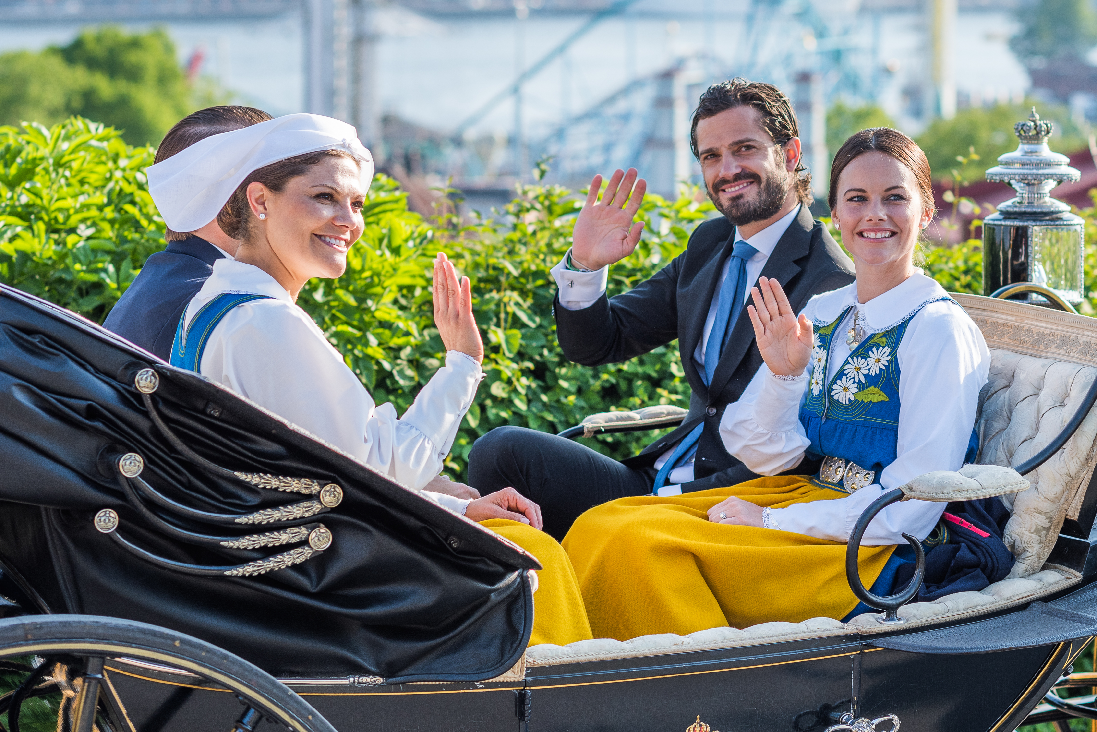 Prince Carl Philip of Sweden at the Swedish National Day June 2015